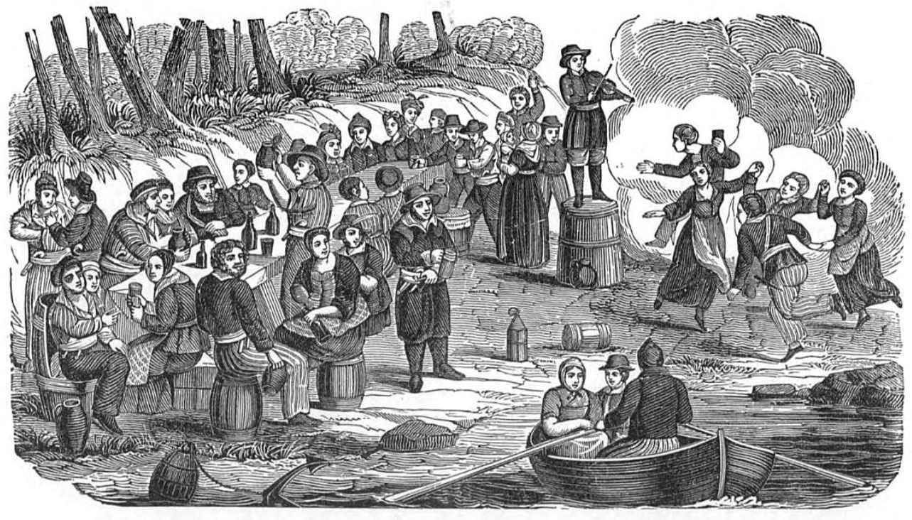 The crews of Blackbeard's and Vane's vessels carousing on the coast of Carolina.